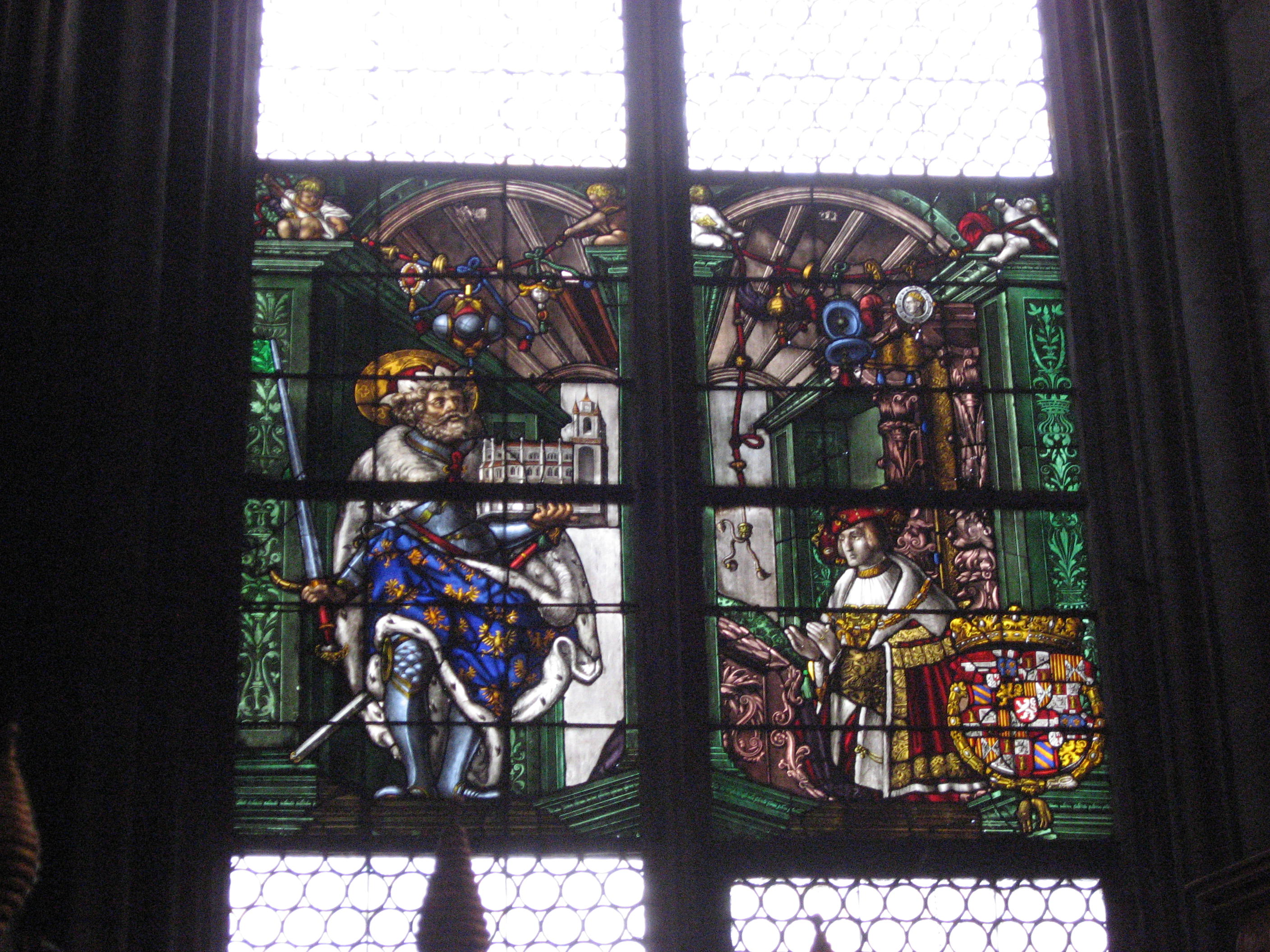 Stained glass windows in Freiburg Minster.